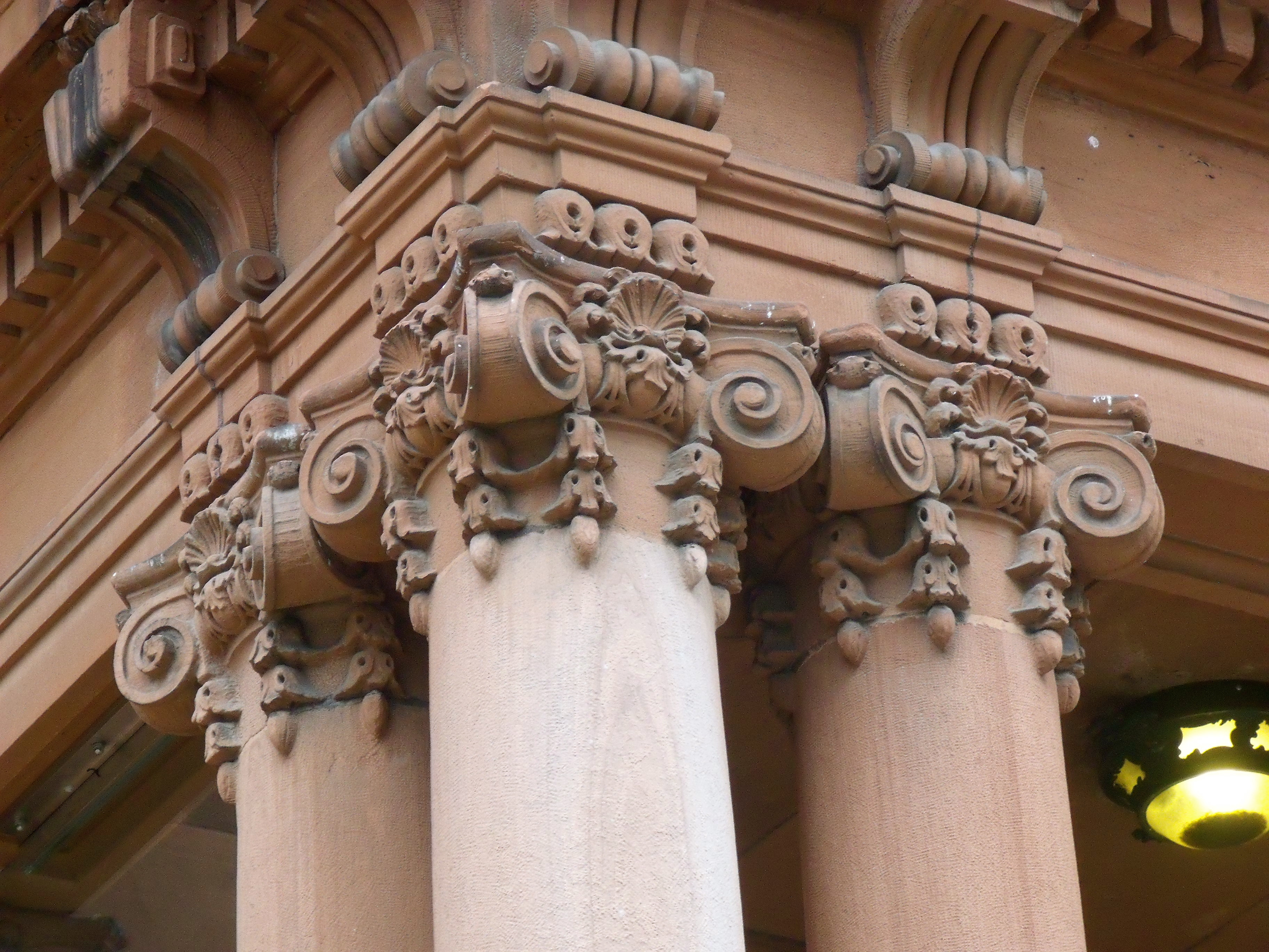 The Charles Rudolph Hosmer House (1901), 3630 Sir-William-Osler Promenade (Drummond Street), Montreal, Quebec, Canada houses the Department of Physical and Occupational Therapy of McGill University.